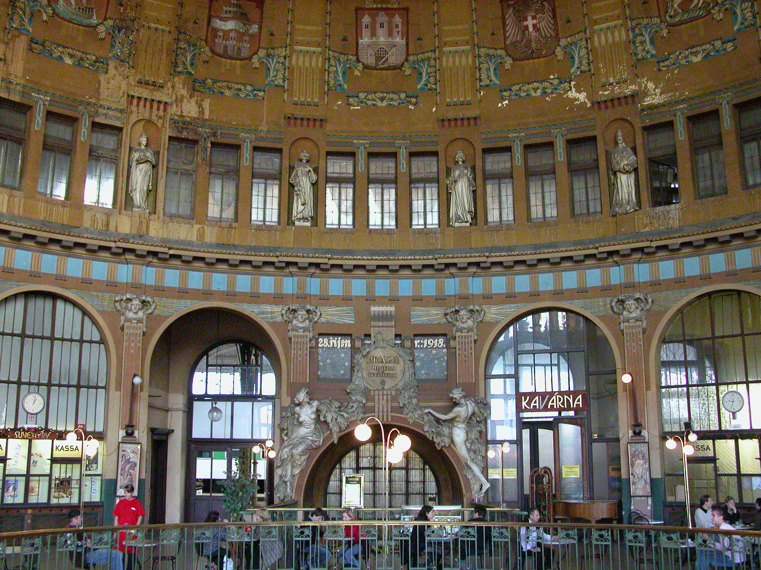 Prague, Czech Republic: Central station: Art Nouveau-café in the entrance hall (full shot).